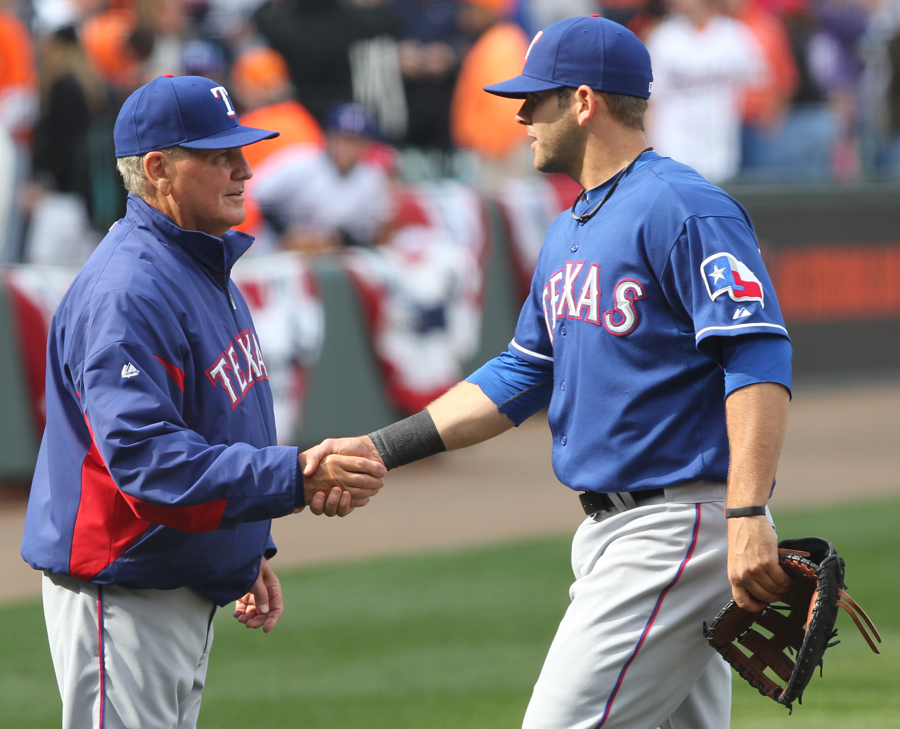 Bench coach Jackie Moore (left) shakes hands with a Texas Rangers player following a 2011 game at Camden Yards in Baltimore